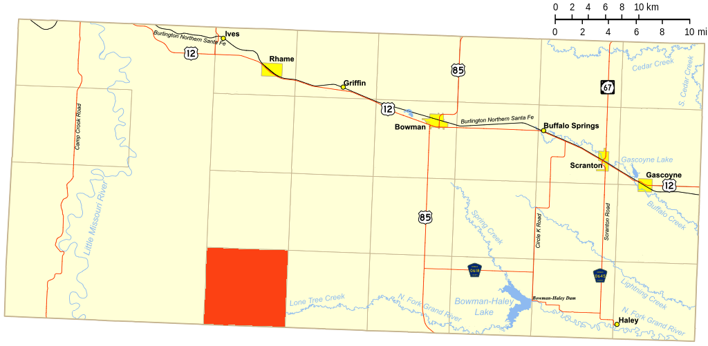 Map of Bowman County, ND, with Langberg Township highlighted